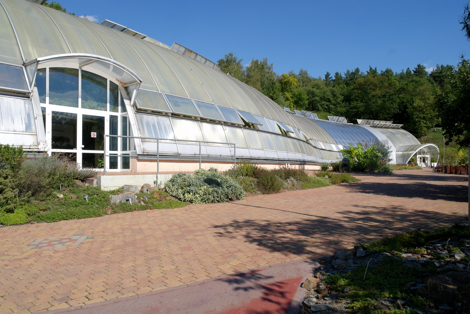 Greenhouse Fata Morgana, Prague Botanical Gardens, Trojská str. 194, Troja.